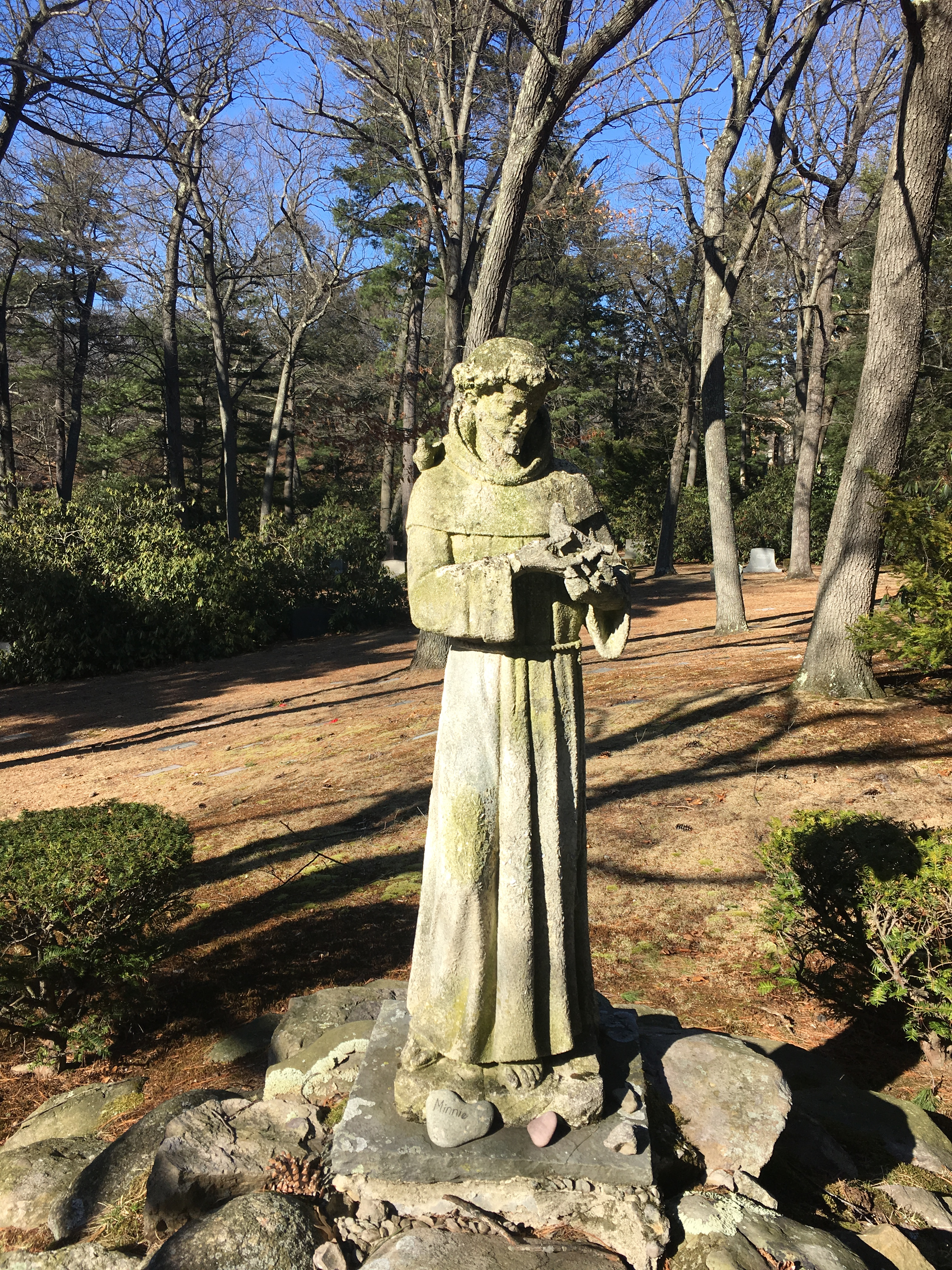 Forest Hills Cemetery in Jamaica Plain.